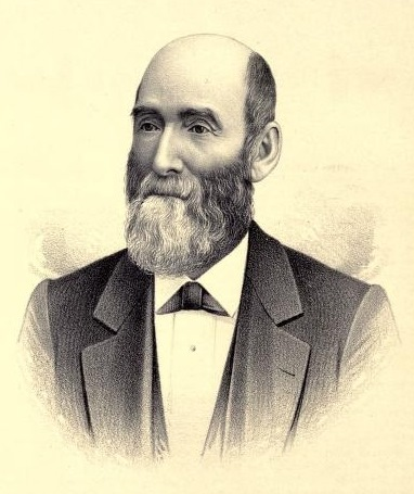 Engraved portrait of Edward Owen Smith (1817–1882), also known as E. O. Smith. He served as the Mayor of Decatur, Illinois and as Illinois state senator